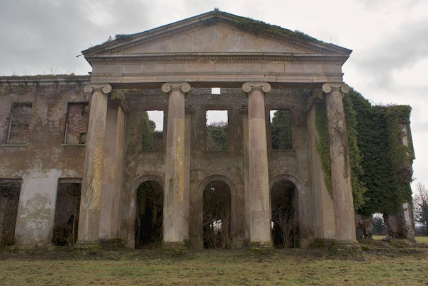 Front view of the house's neo-classical portico